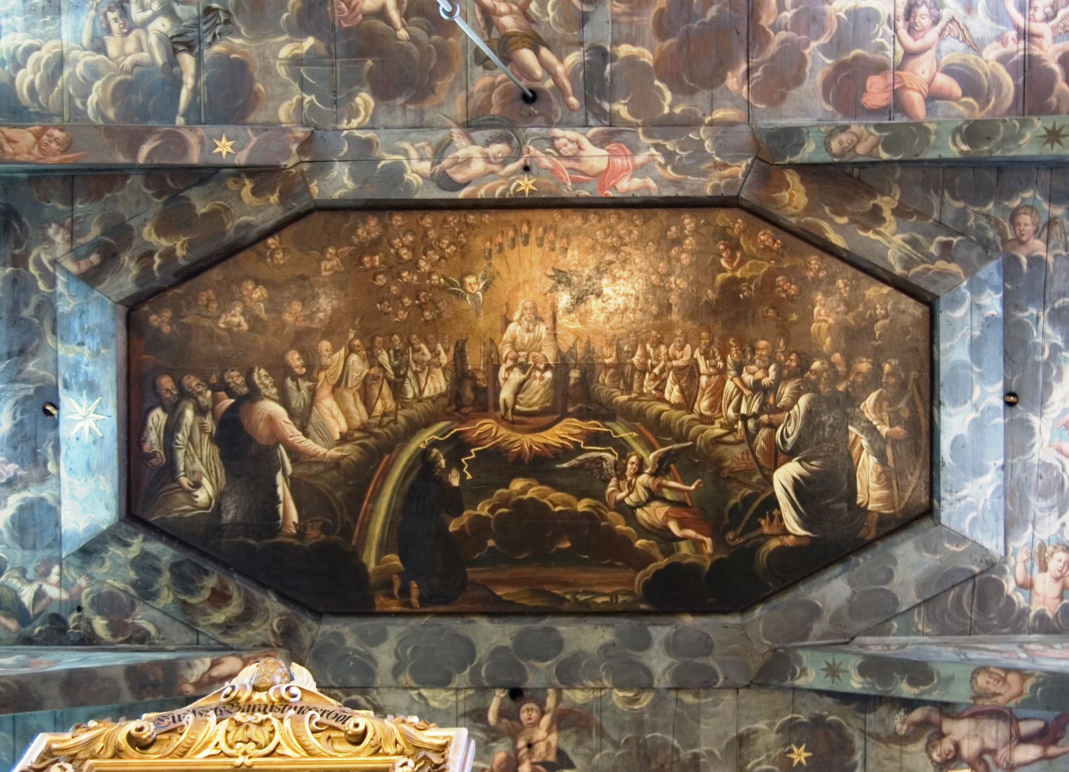 Cellar painting in Peace church in Schweidnitz (an Apocalyptic scene)